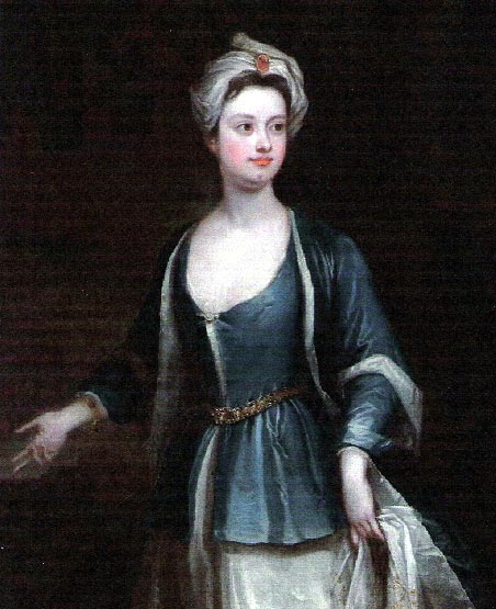 Portrait of Lady Dorothy Walpole